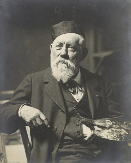 Photo of Antoine Vollon holding a palette